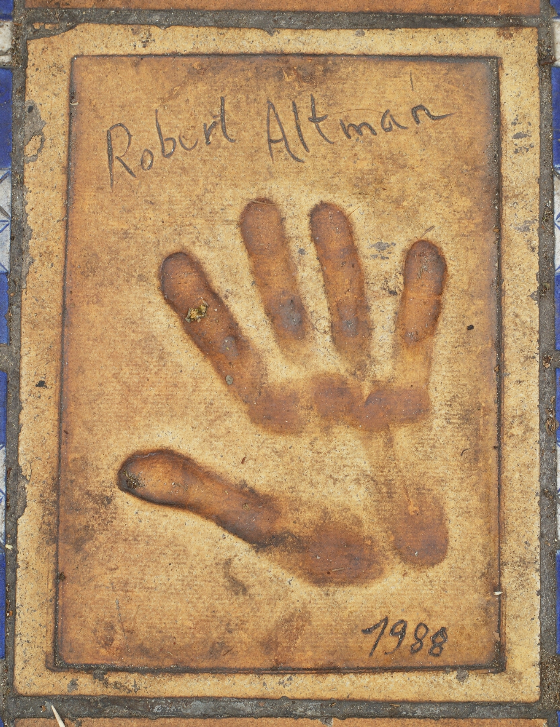 Handprint and autograph of Robert Altman on the walkway in front of the Palais des Festivals et des Congrès in Cannes.